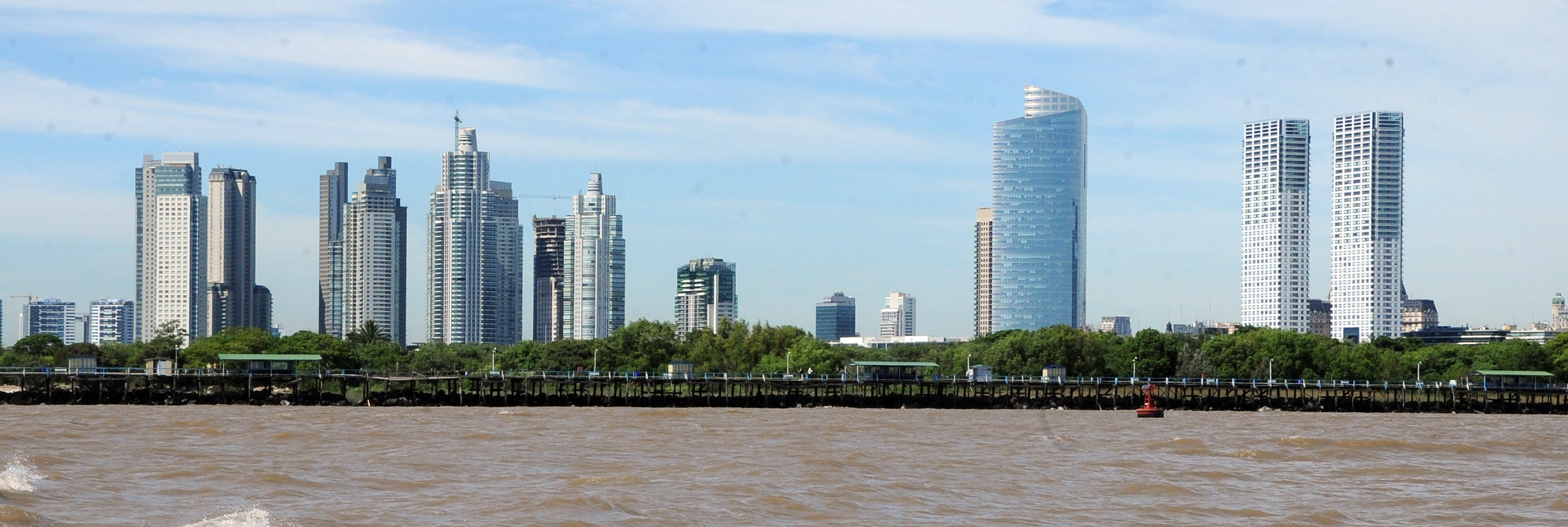 Panoramic view of Puerto Madero, Buenos Aires.